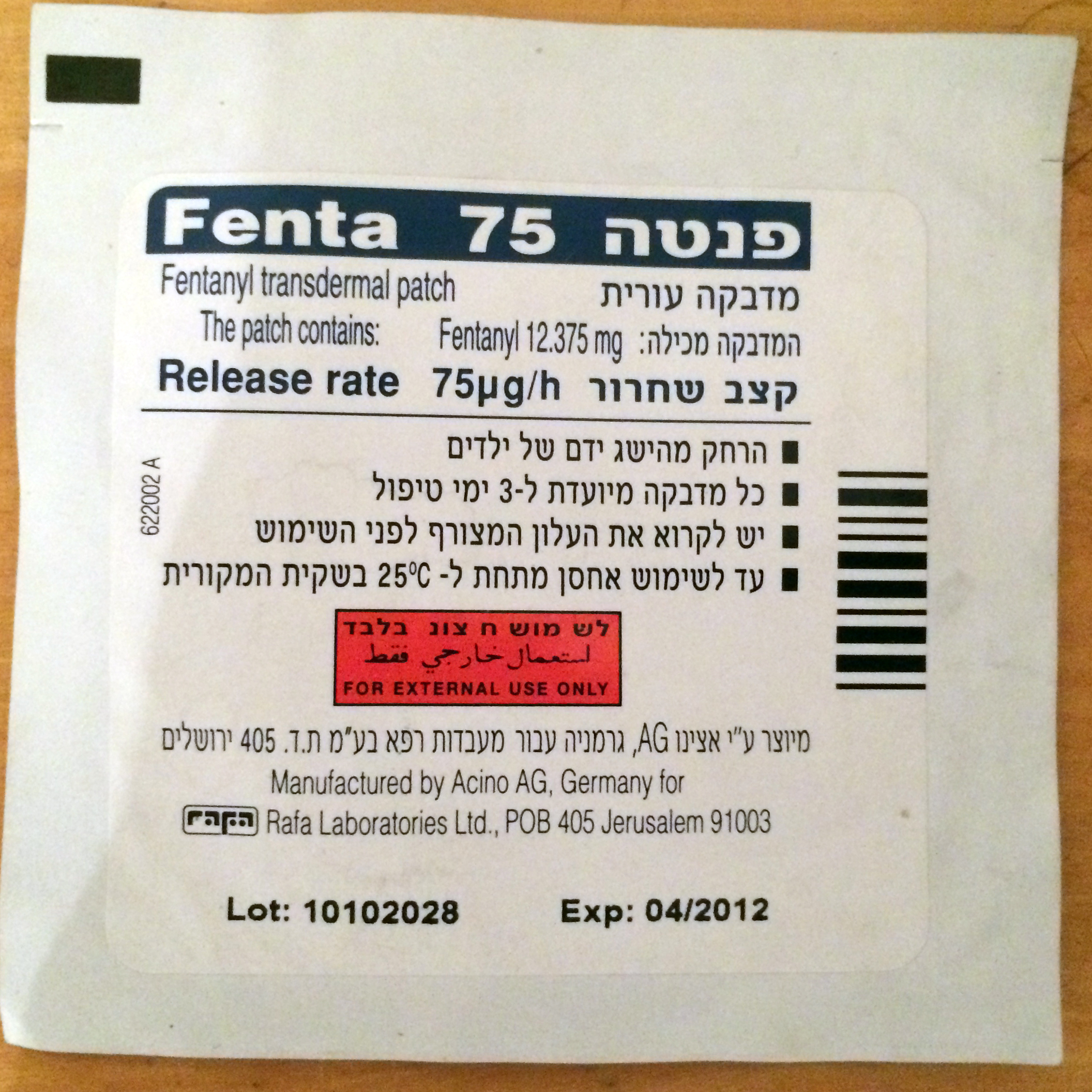 A fentanyl patch from Israel